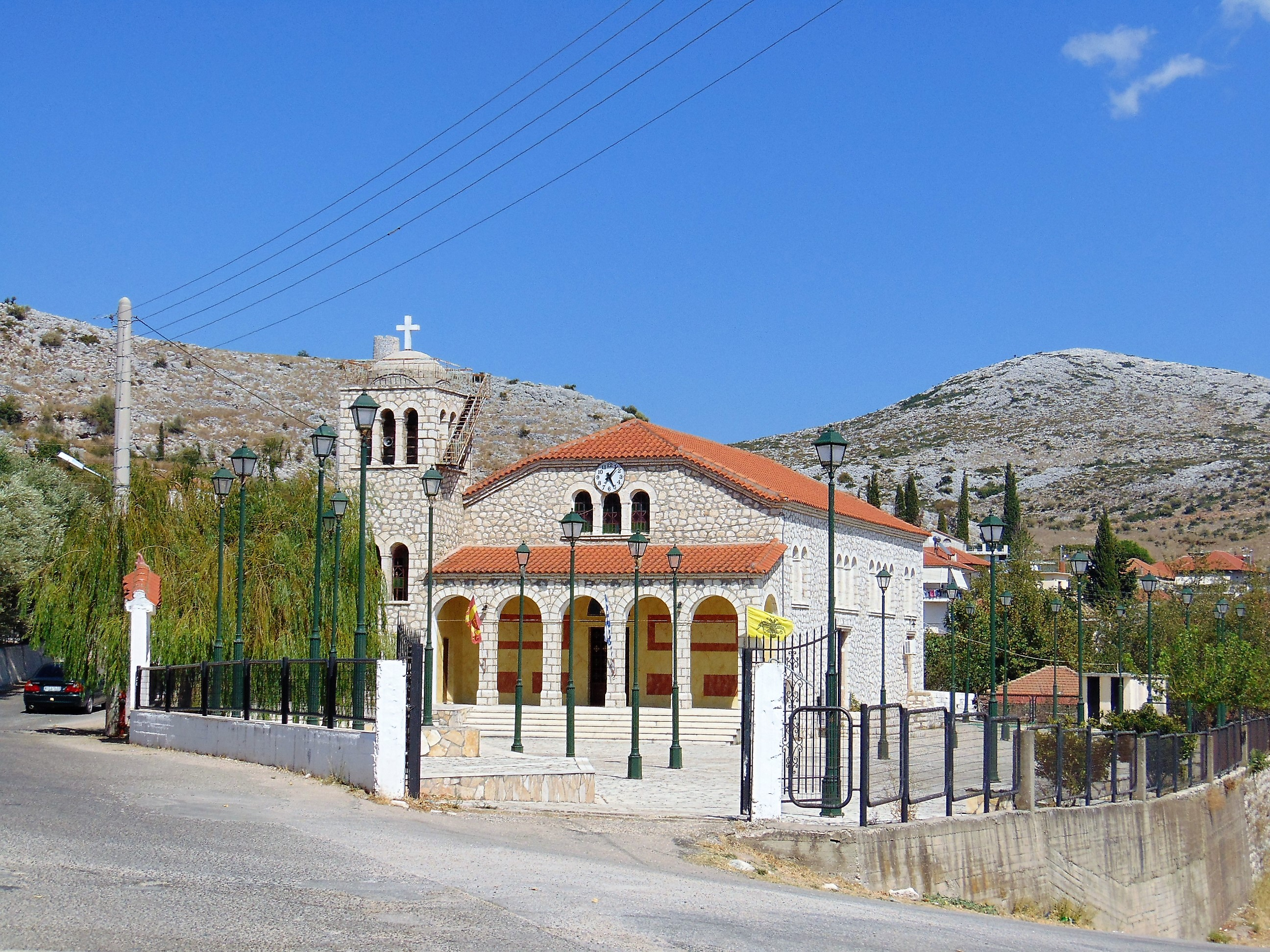 Church of St Spyridon in Archontochori Aitoloakarnania